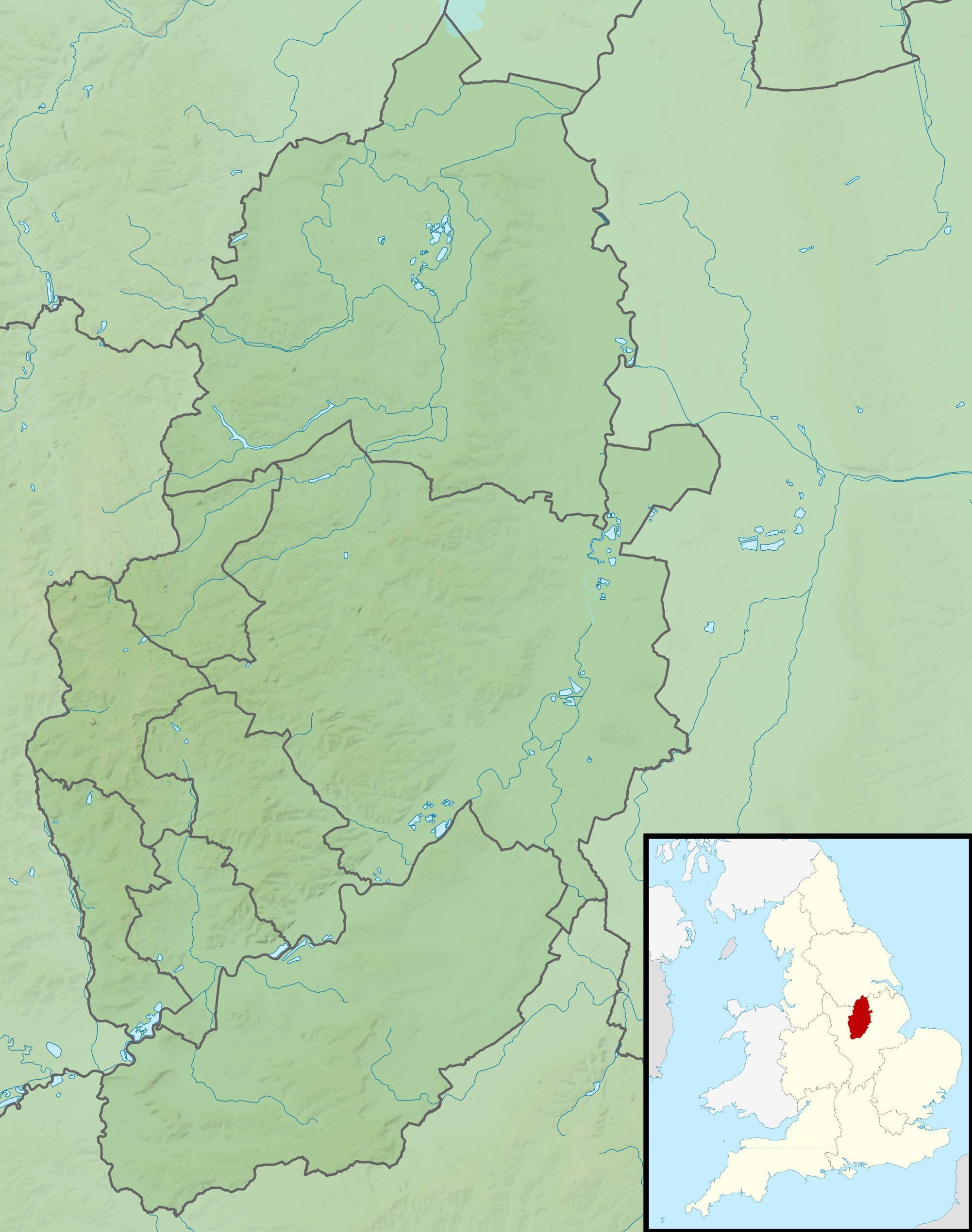 Relief map of Nottinghamshire, UK. Equirectangular map projection on WGS 84 datum, with N/S stretched 165% Geographic limits: West: 1.37W East: 0.42W North: 53.51N South: 52.78N